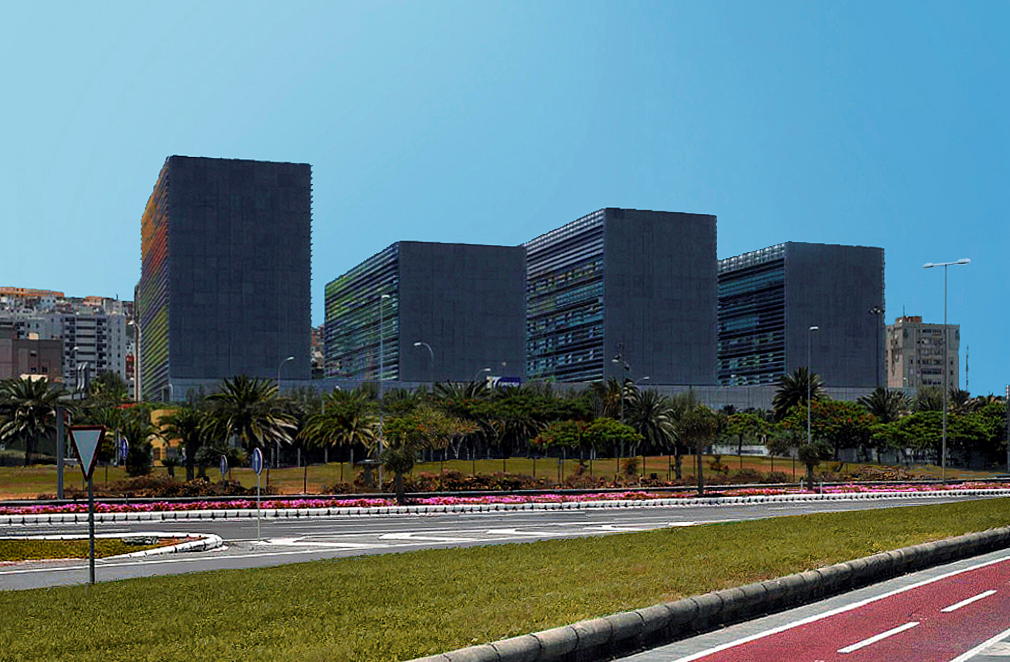 José Antonio Sosa, Magüi Gonzalez, Miguel Santiago, architects: Law Courts Complex in Las Palmas de Gran Canaria (2004-2010) [1]